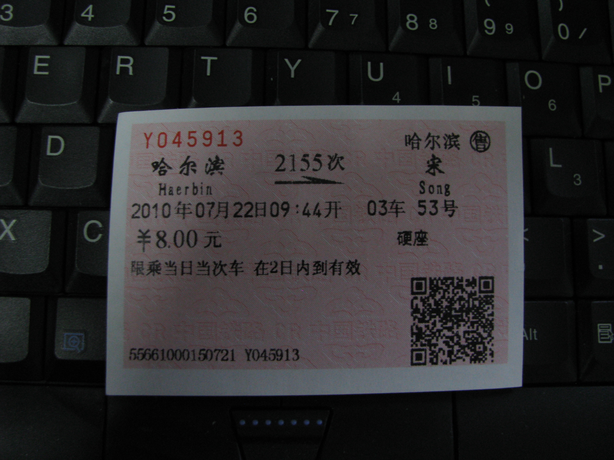 Train tickets Harbin to Song